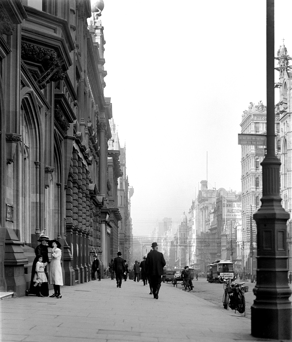 Collins Street looking west in 1910.